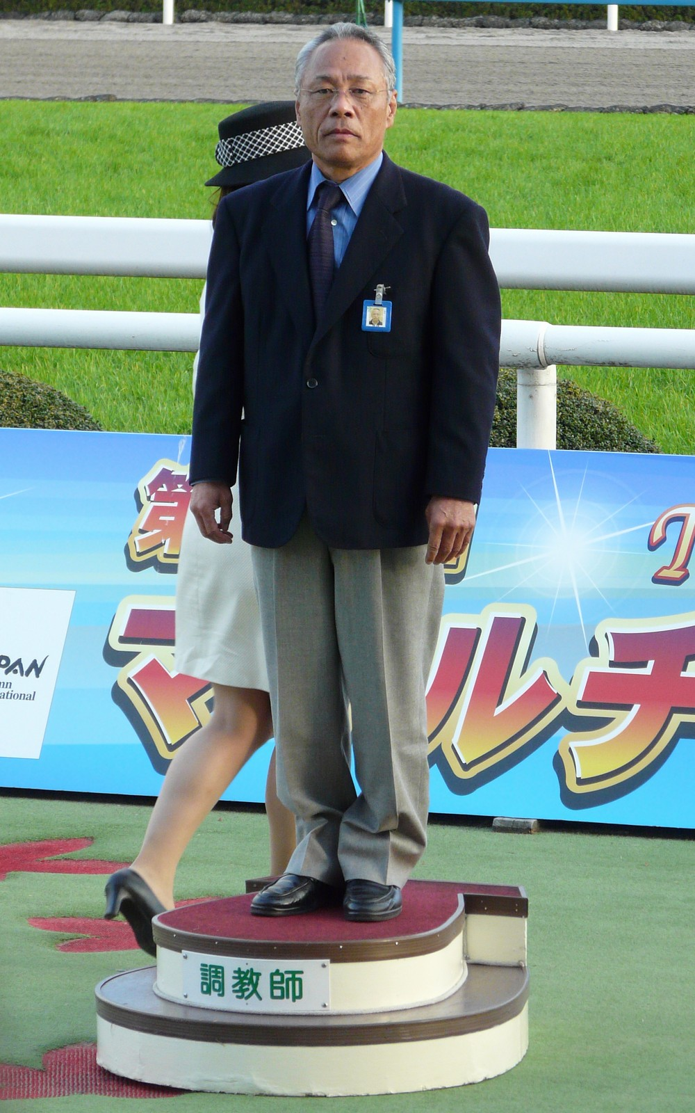 Masazo-Ryoke20091129